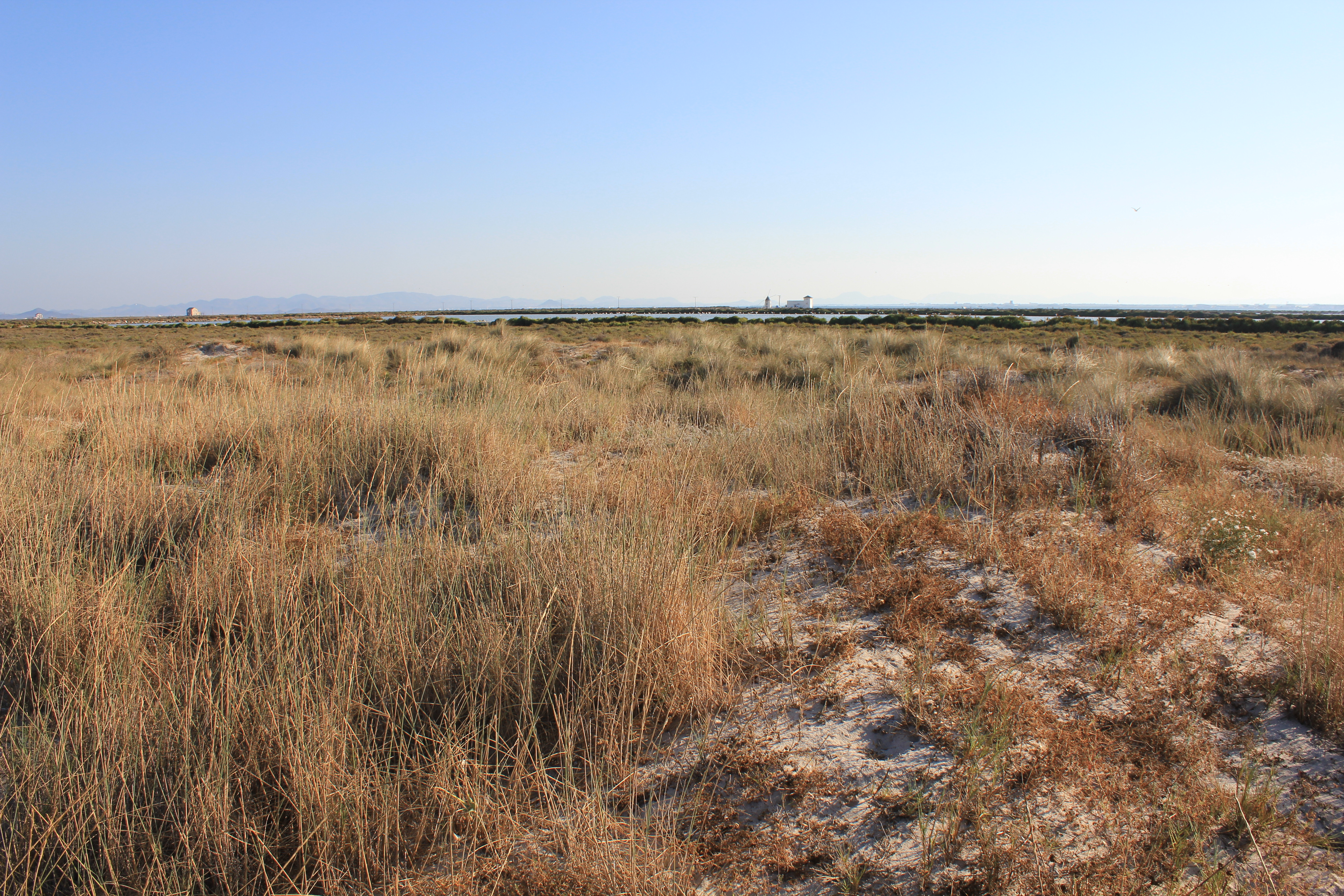 Landscape by Mar Menor. Dunes with Elymus farctus